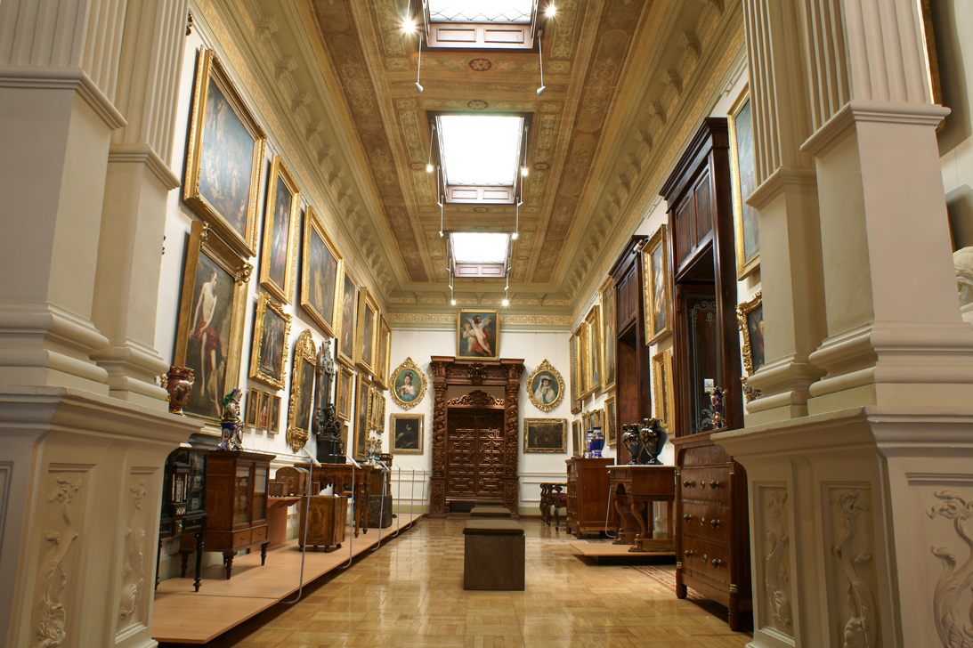 Painting Gallery — interior of the Museo José Luis Bello y González, in the Historic center of Puebla, Puebla state, México.